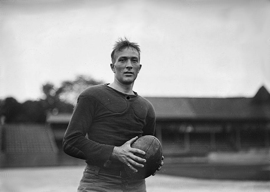 Bain News Service,, publisher. Wilder Graves Penfield, Princeton 1911 Sept. 25. 1 negative : glass ; 5 x 7 in. or smaller. Notes: Title and date from data provided by the Bain News Service on the negative. Photo shows Wilder Graves Penfield (1891-1976) while a football player at Princeton University. (Source: Flickr Commons project, 2008) Forms part of: George Grantham Bain Collection (Library of Congress). Subjects: Football Format: Glass negatives. Repository: Library of Congress, Prints and Photographs Division, Washington, D.C. 20540 USA, General information about the Bain Collection is available at Persistent URL: Call Number: LC-B2- 2292-1